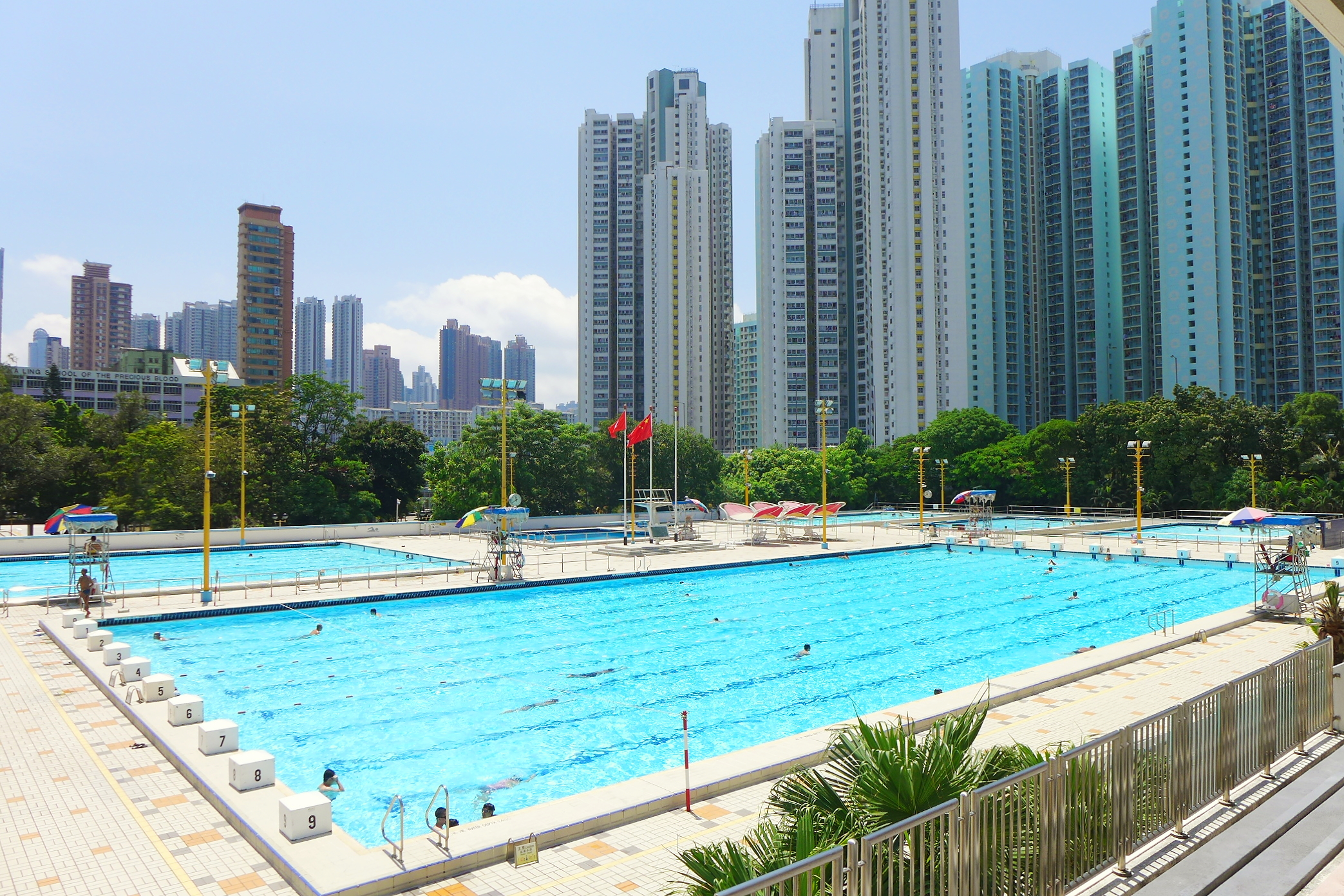 Sham Shui Po Park Swimming Pool View